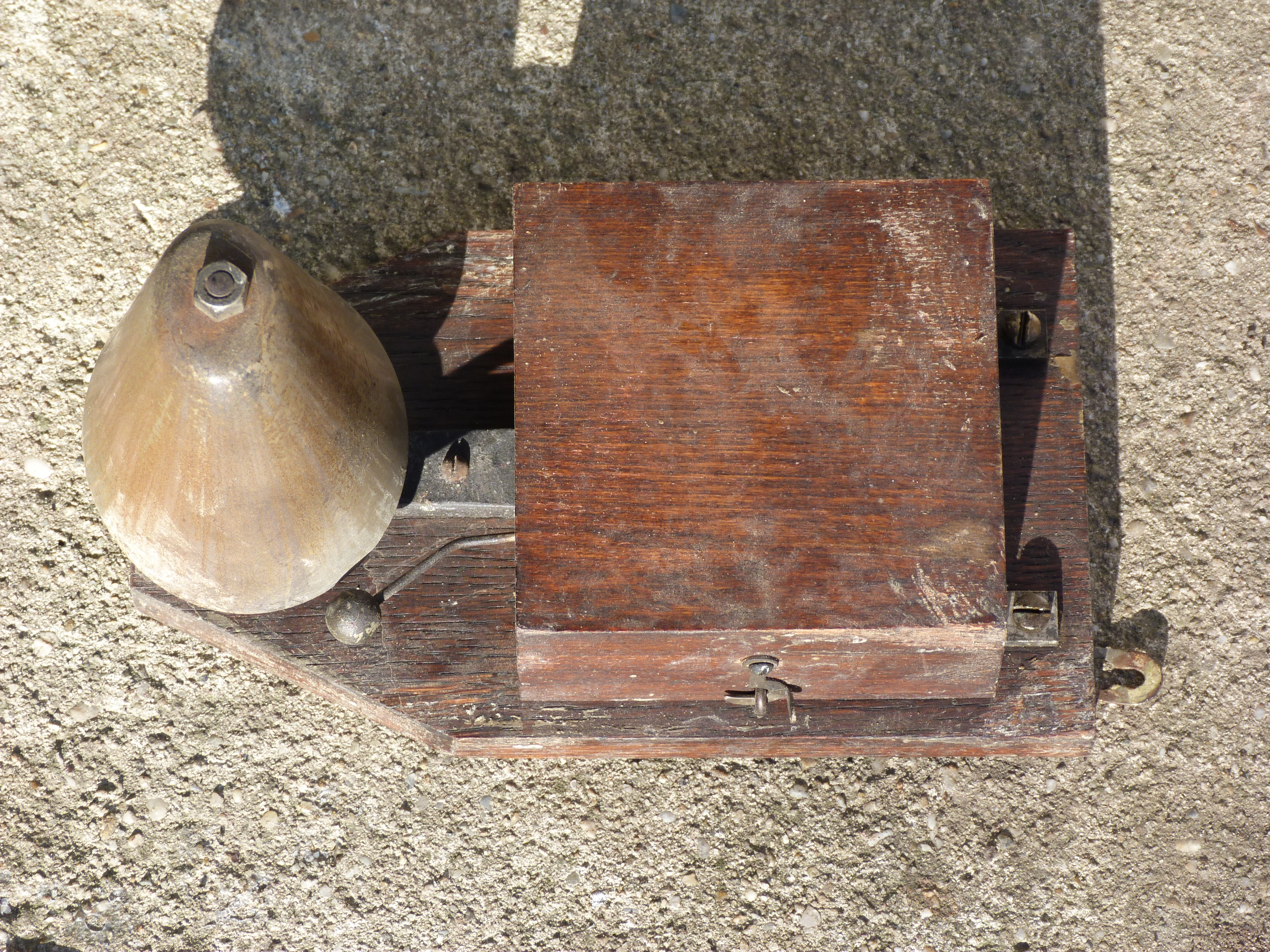 Doorbell at the entrance of the flat (inside). Andrássy avenue 94, third floor 2. apartment. Original equipment of the flat, built in 1884. ©© Derzsi Elekes Andor, Budapest, 2014, Published in the Metapolisz DVD line. You are authorised to use this vid under Creative Commons – even for commercial, for profit purposes. The photo must be attributed to Derzsi Elekes Andor. All of the photos and vids in the Metapolisz DVD line are under Creative Commons and can be used even for commercial – for profit – purposes. Recommended Citation Derzsi Elekes Andor: Metapolisz DVD line